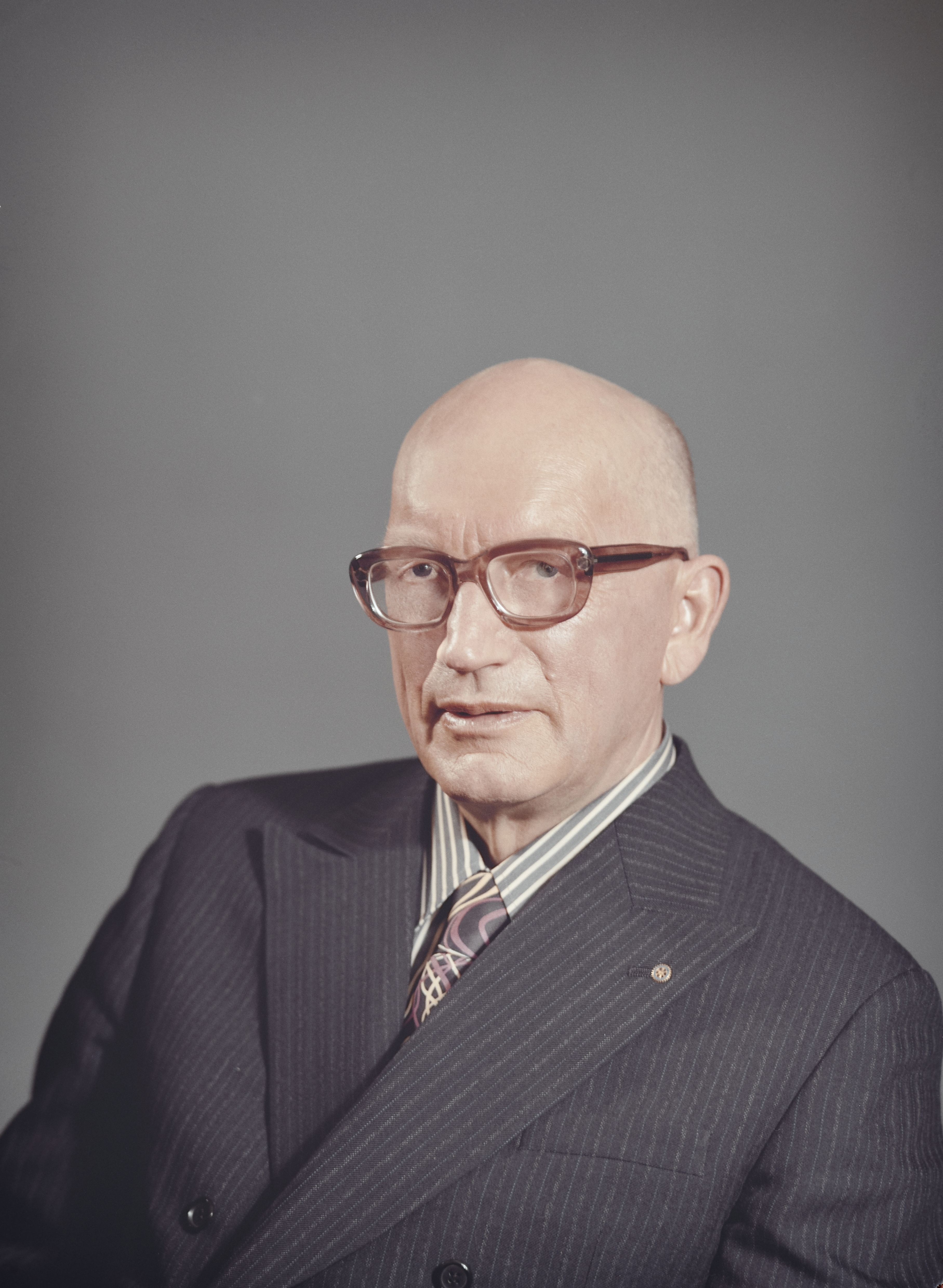 Photograph of the Finnish politician Martti Miettunen (1907–2002).